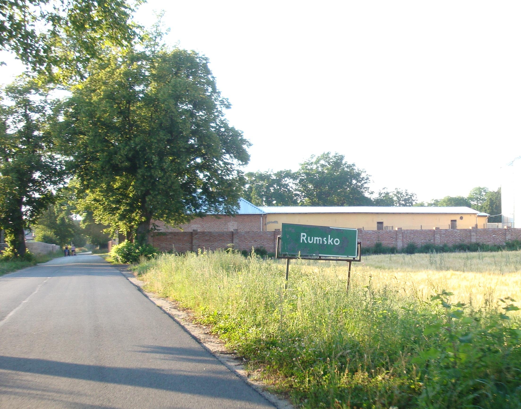 Rumsko-village in Pomeranian Voivodeship, Poland